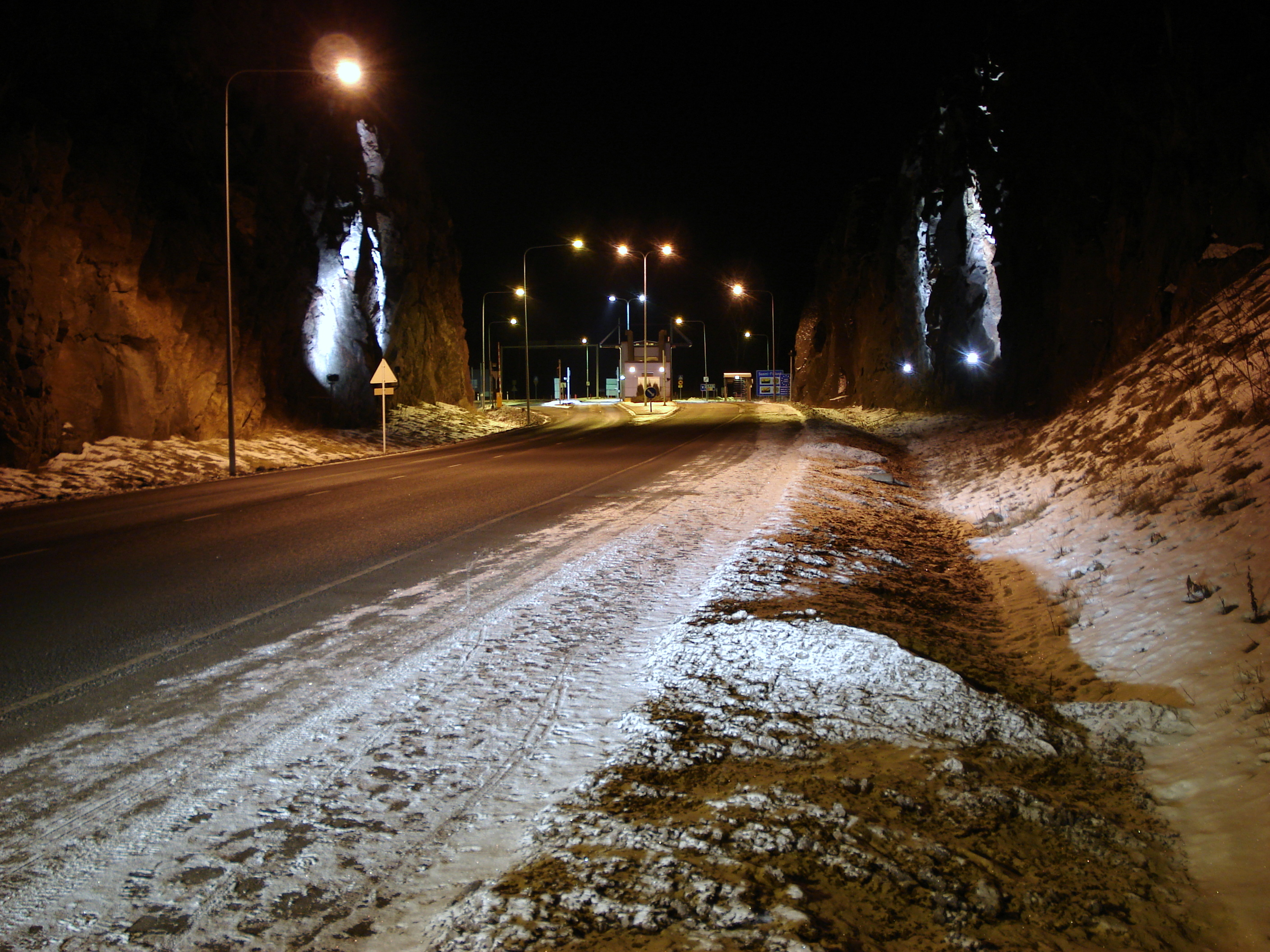 Main entrance of the Port of Naantali in Naantali, Finland.